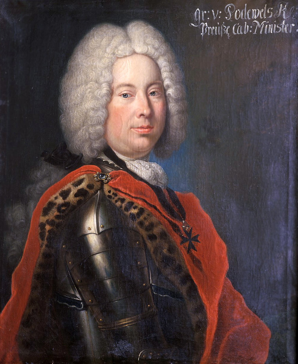 Portrait of Heinrich von Podewils (1696-1760)